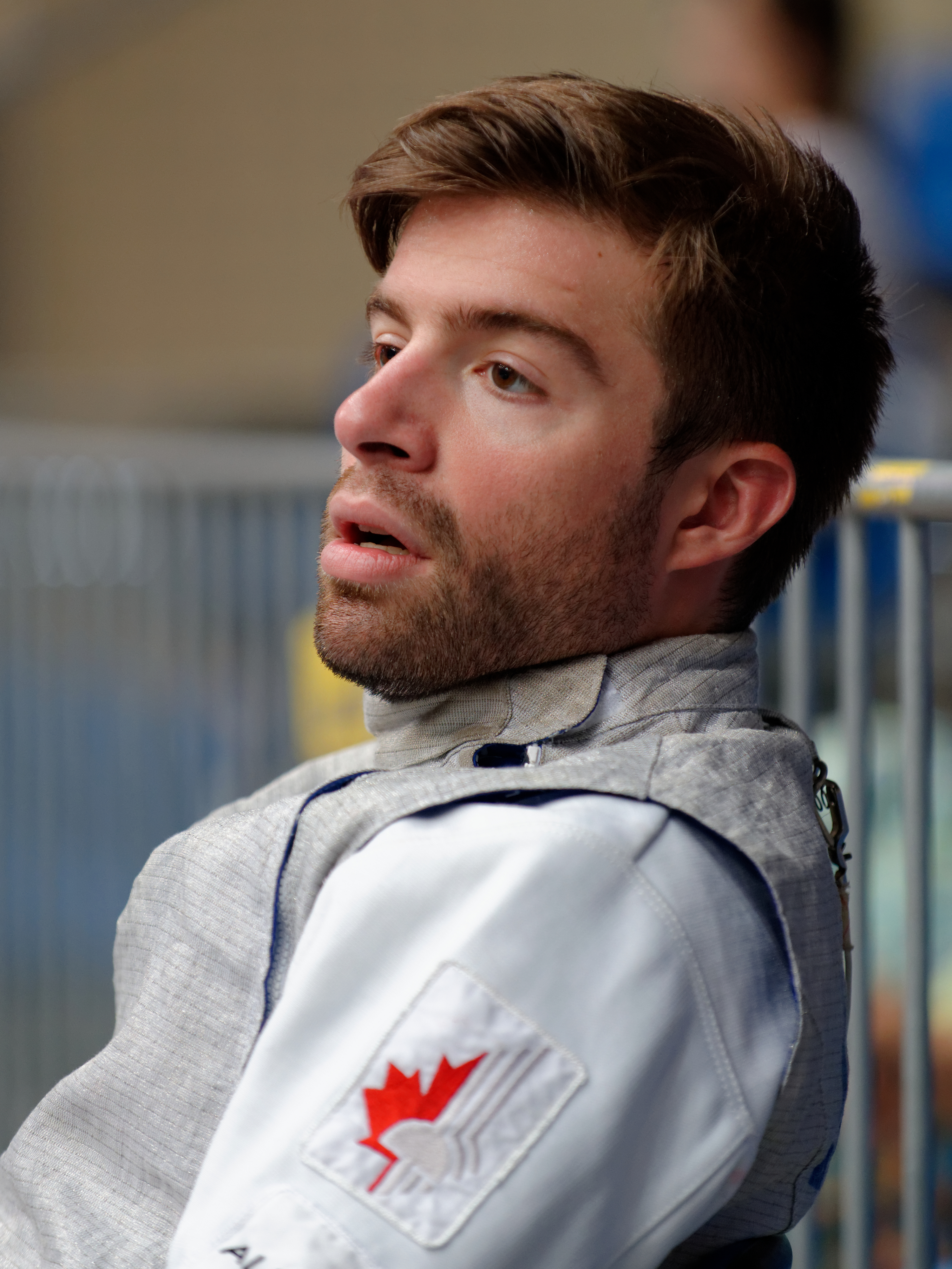 Étienne Lalonde Turbide of Canada at the men's team foil event of the 2013 World Fencing Championships 2013 at Syma Hall in Budapest, 12 August 2013.